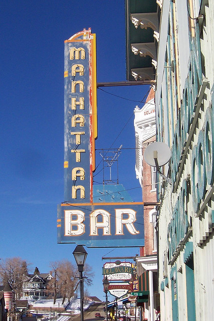 Manhattan Bar, Leadville. A bar of rather dubious reputation, it nonetheless is one of our more well-known establishments. Most know it by its nickname.